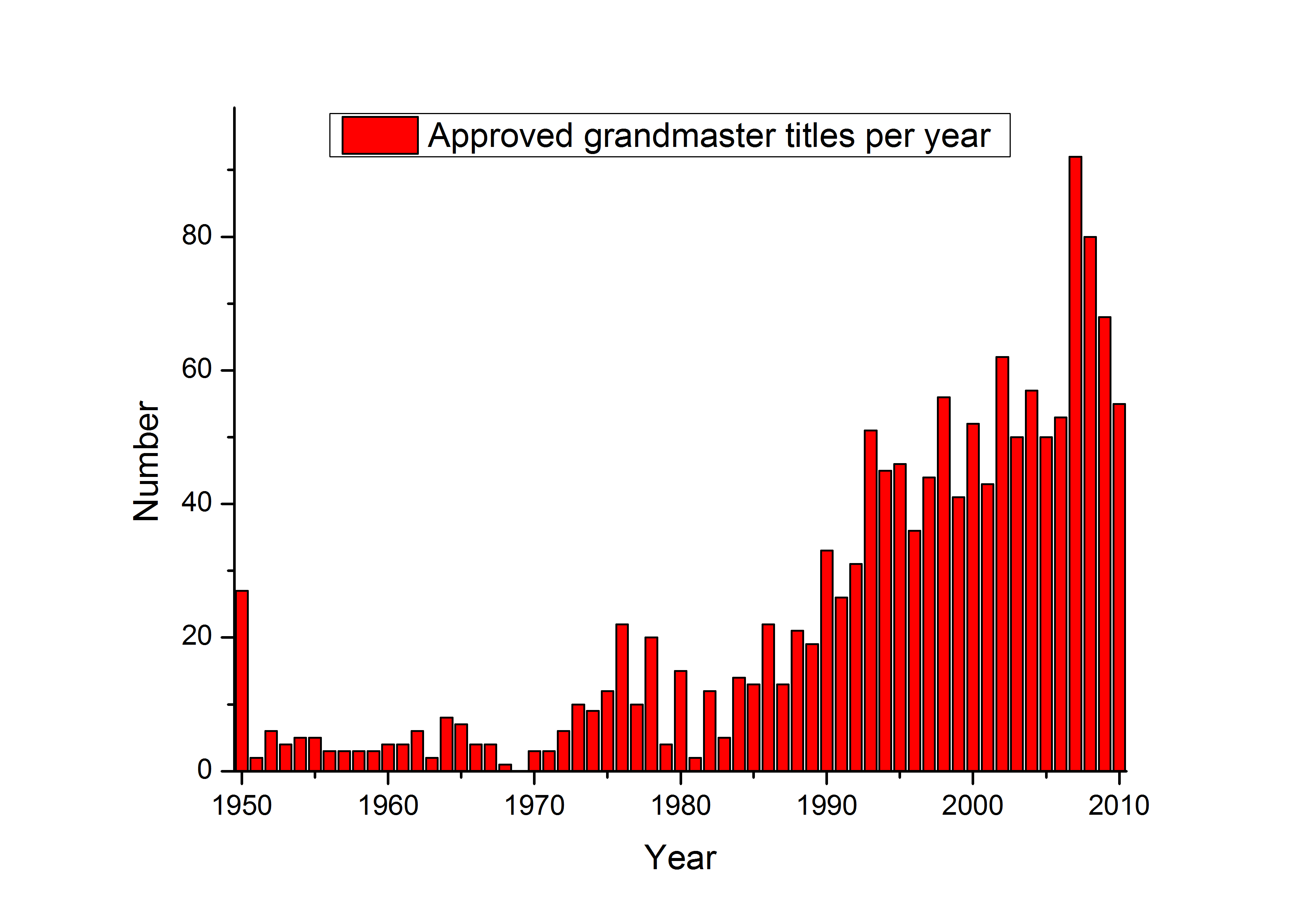 Approved Grandmaster titles per year from 1950 to 2010.